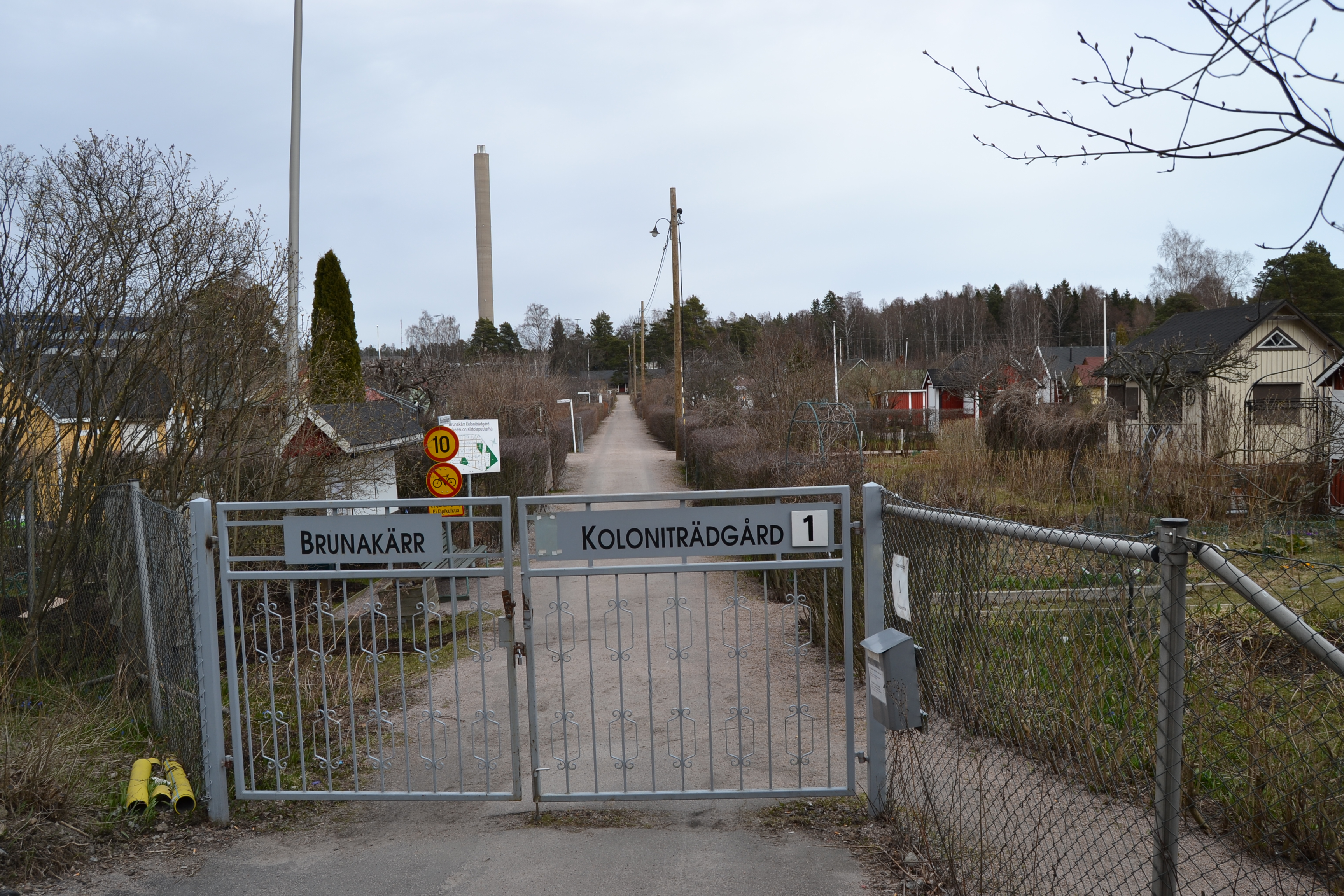 Ruskeasuo allotment garden (Ruskeasuon siirtolapuutarha, Brunakärr koloniträdgård) in Ruskeasuo, Helsinki.